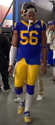 In 2019